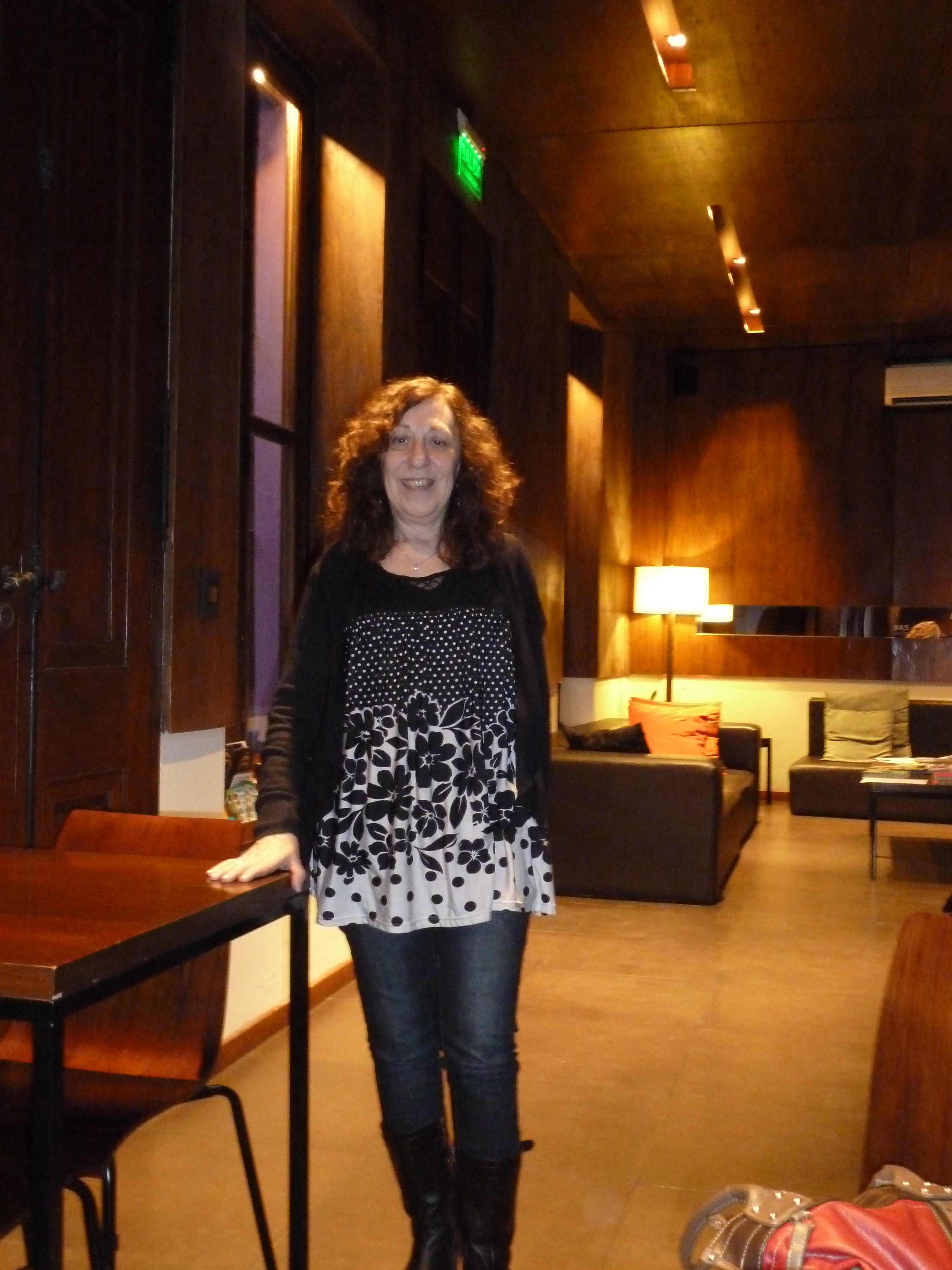 Argentine writer Susana Szwarc in Buenos Aires, 2013